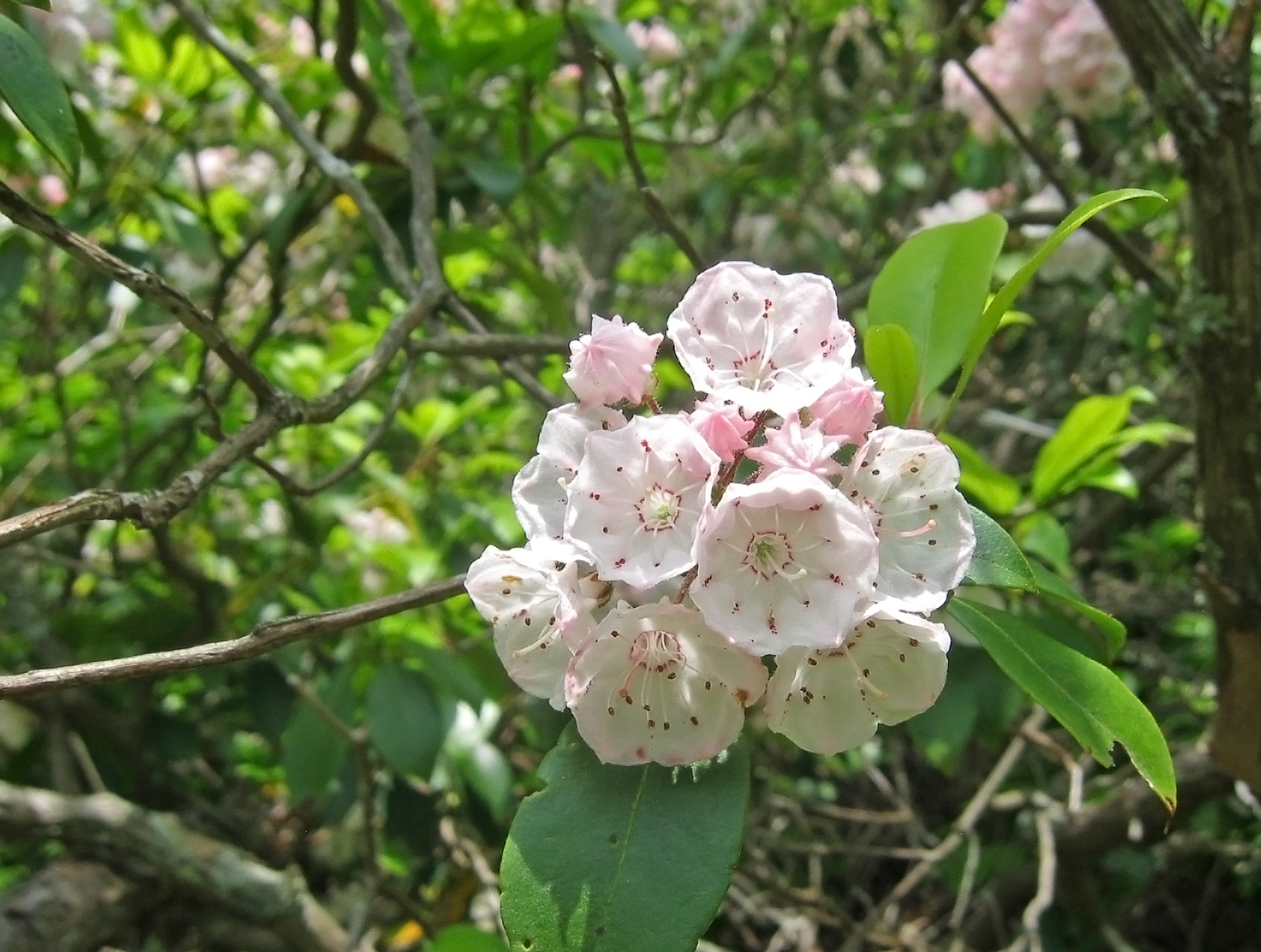 From last year's trip to Appalachia; Kalmia latifolia flowering along Roundtop Trail, Great Smoky Mountains National Park.